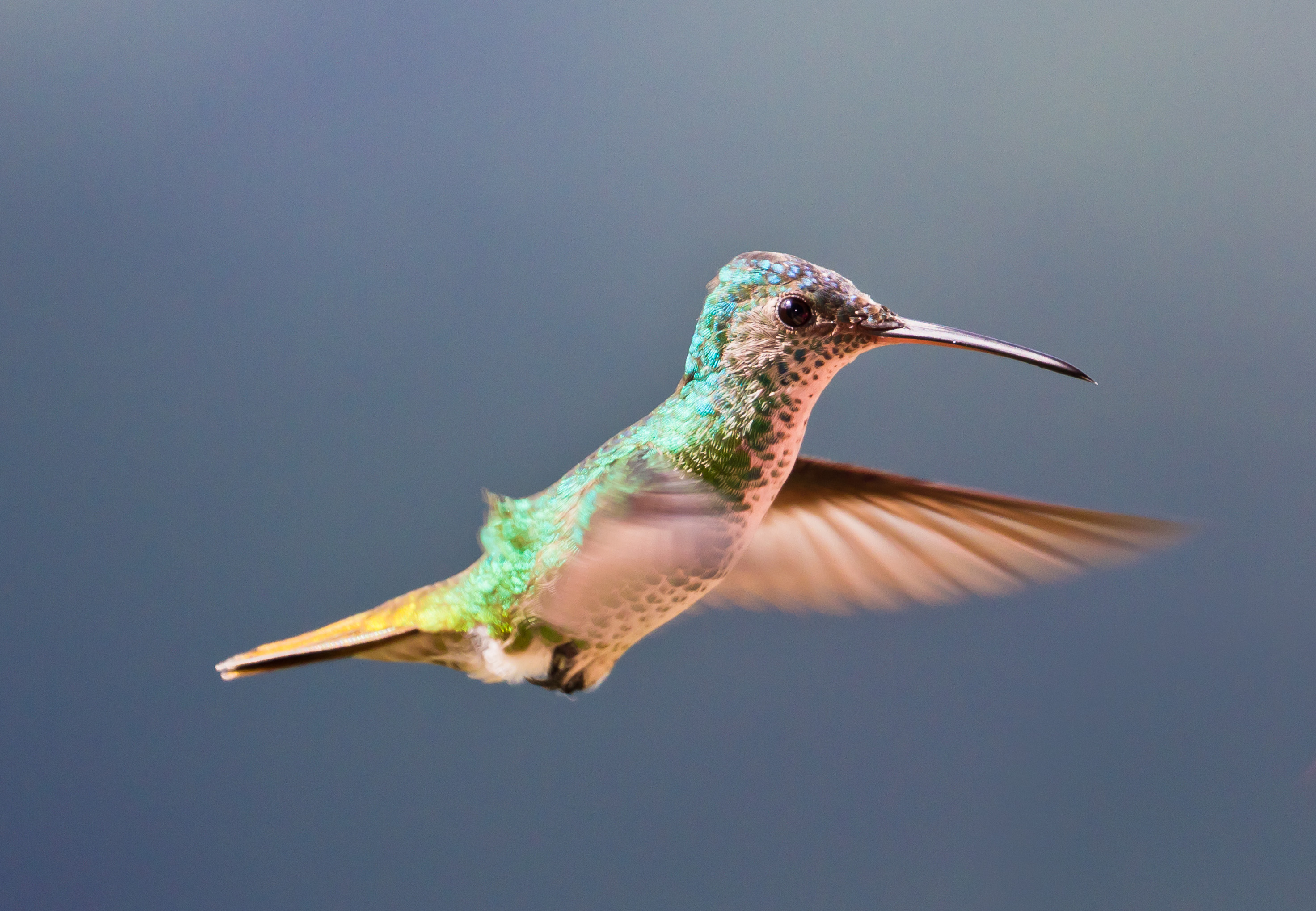 Hummingbird on flying. Golden-tailed Sapphire (Chrysuronia oenone) in NE Venezuela.